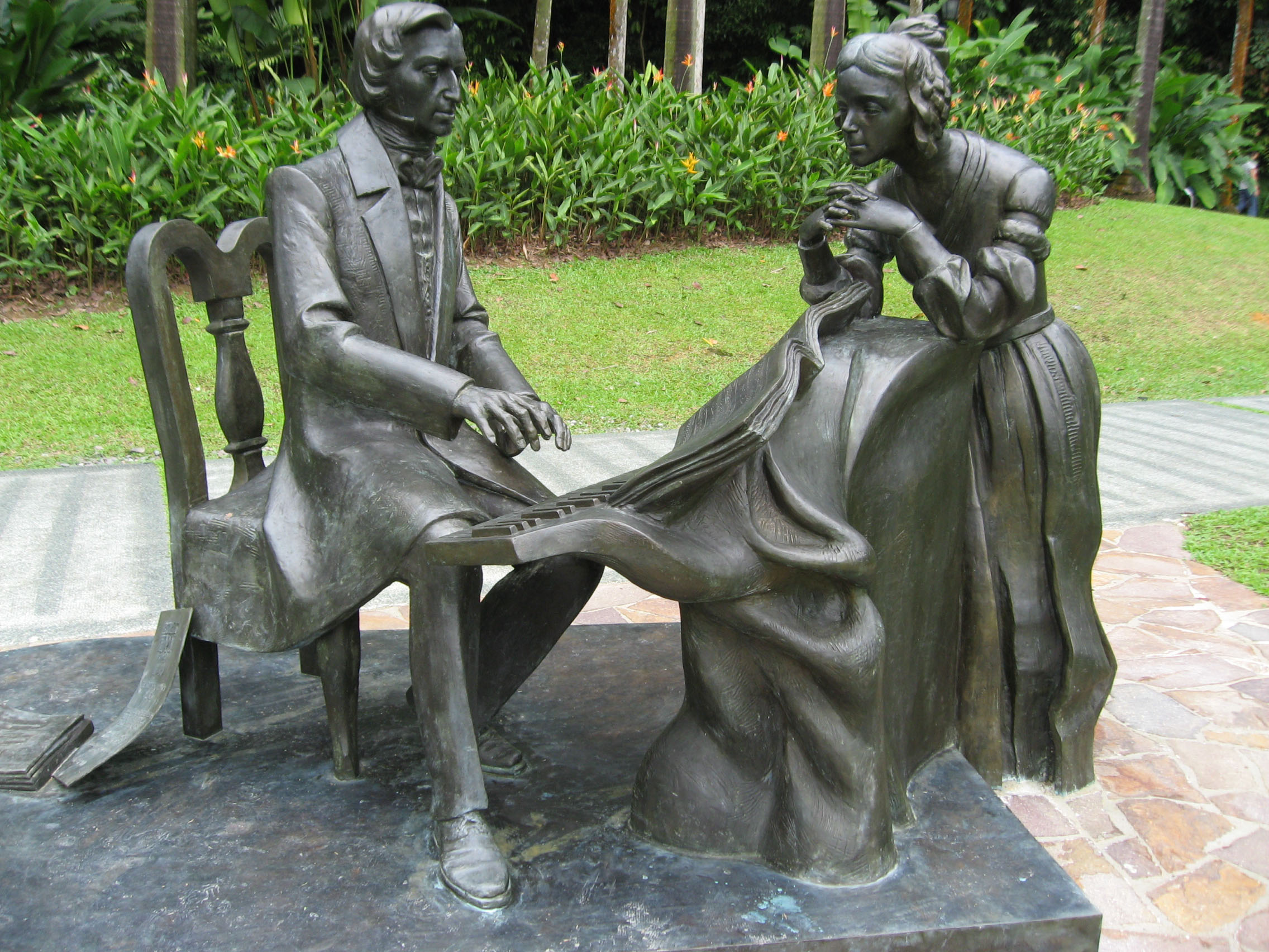 A statue of Frederick Chopin near the Symphony Lake in the Singapore Botanic Gardens. This work of art was created by Polish sculptor Karol Badyna.[1] The inscription, on a page at the foot of Chopin's chair, reads: Frederick Chopin (Szopen) 1810–1849 The Most Eminent of Polish Composers This sculpture is a gift of the people of Poland to Singapore, in memory of music's greatest tone poets Made possible by the generous support of: Halina and Miroslaw Pienkowski and the Embassy of the Republic of Poland in Singapore October 2008